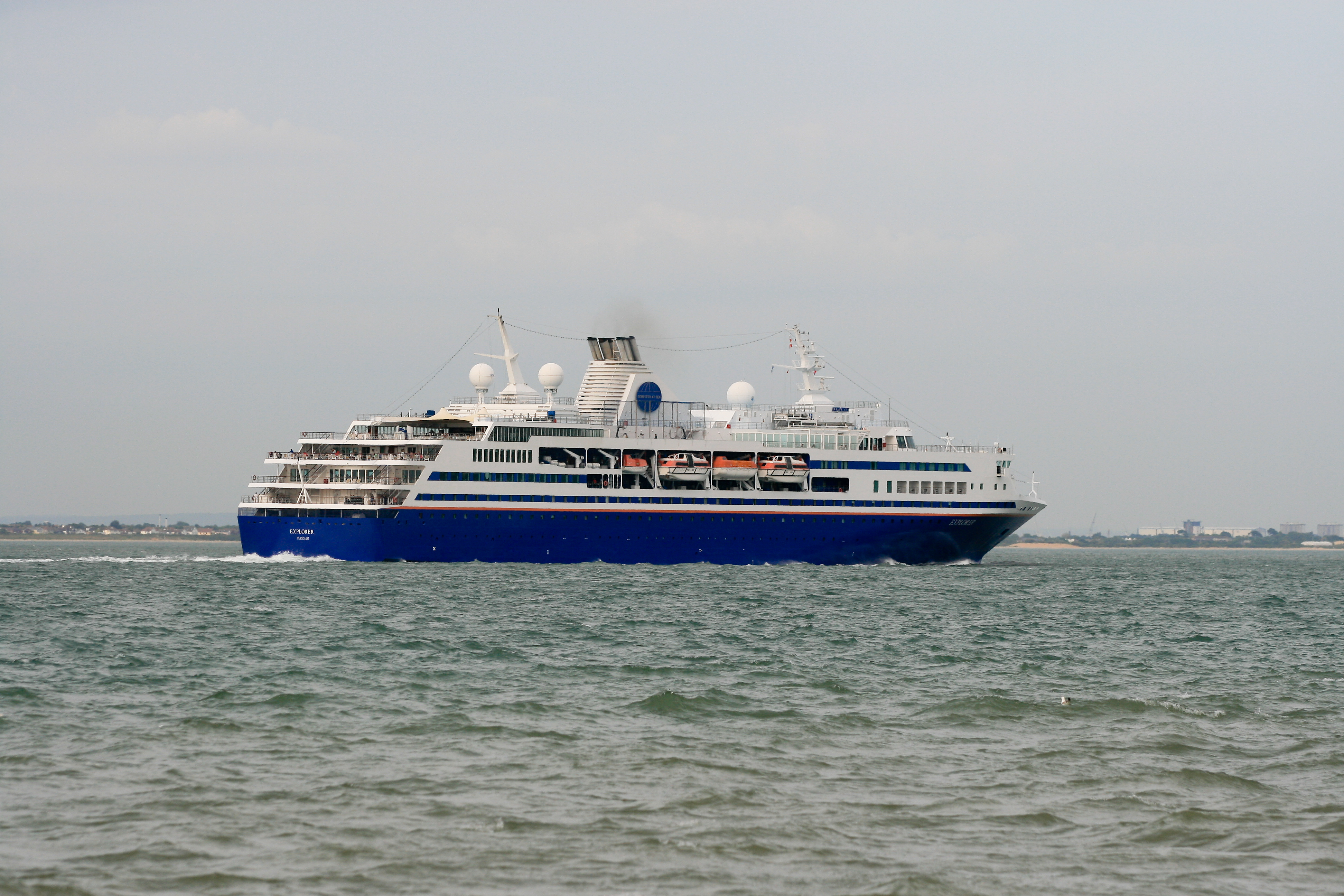 MS Explorer an educational cruise vessel operated by Semester at Sea passing Cowes, Isle of Wight after departing from Southampton on 17 June 2013., photographed by Brian Burnell from Castle Point, Isle of Wight. Wikipedia editors are reminded that the copyright remains with the photographer, and that the terms of the Creative Commons (CC), Attribution (BY), Share Alike (SA) CC-BY-SA-3.0 that allow editors to reuse this image apply to Wikipedia editors also, as they do to other re-users of this image. Breaches of the licence terms are not only unlawful, but are also antisocial, in that breaches discourage photographers from making their images freely available to everyone without payment. Wikipedia re-users are also reminded of the license terms that derivatives of this image should not imply that the adaptation is endorsed or approved by the author or copyright holder. Neither should derivatives be presented as the creation of the author or copyright holder, while clearly stating that the adaptation is a derivative of the original. Attribution online should be in this format Brian Burnell. On the printed page, a simpler form is acceptable - example: "Image: Brian Burnell".